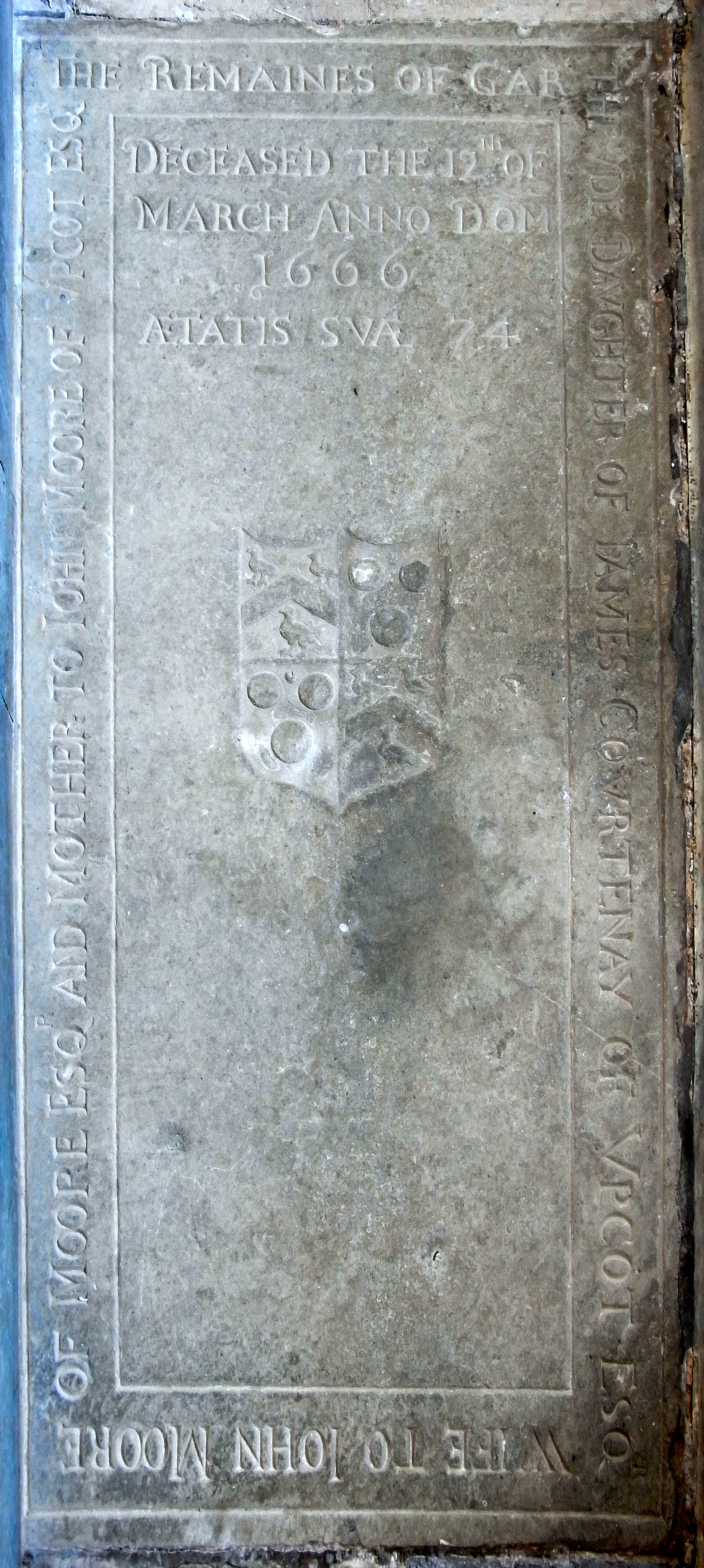 Ledger stone in floor of Upcott Chapel, St Matthew's Church, Cheriton Fitzpaine, Devon, to Gertrude Courtenay (1592-1666),[36] daughter and heiress of the last James Courtenay of Upcott, in the parish of Cheriton Fitzpaine.John Moore (1582-1641)[32] of Moore "near Tavistock", in Devon (possibly More-Malherbe in the parish of Broadwoodwidger, 10 miles north-west of Tavistock, where many of the Moore family were buried), married Gertrude Courtenay (1592-1666), daughter and heiress of the last James Courtenay of Upcott. Gertrude Courtenay was buried in the Upcott Chapel forming the east end of the north aisle of St Matthew's Church, Cheriton Fitzpaine, where her ledger stone survives, today on the floor of the vestry which together with the organ has occupied part of the former chapel. It displays the canting arms of Moore (Argent, a chevron between three moorcocks sable) quartering Courtenay (Or, three torteaux), and is inscribed as follows: "The remaines of Garthrude daughter of James Courtenay of Upcot Esqr wife to John Moore of Moore Esqr and mother to John Moore of Upcot Esqr. Deceased the 12th of March Anno Dom 1666 aetatis suae[39] 74".